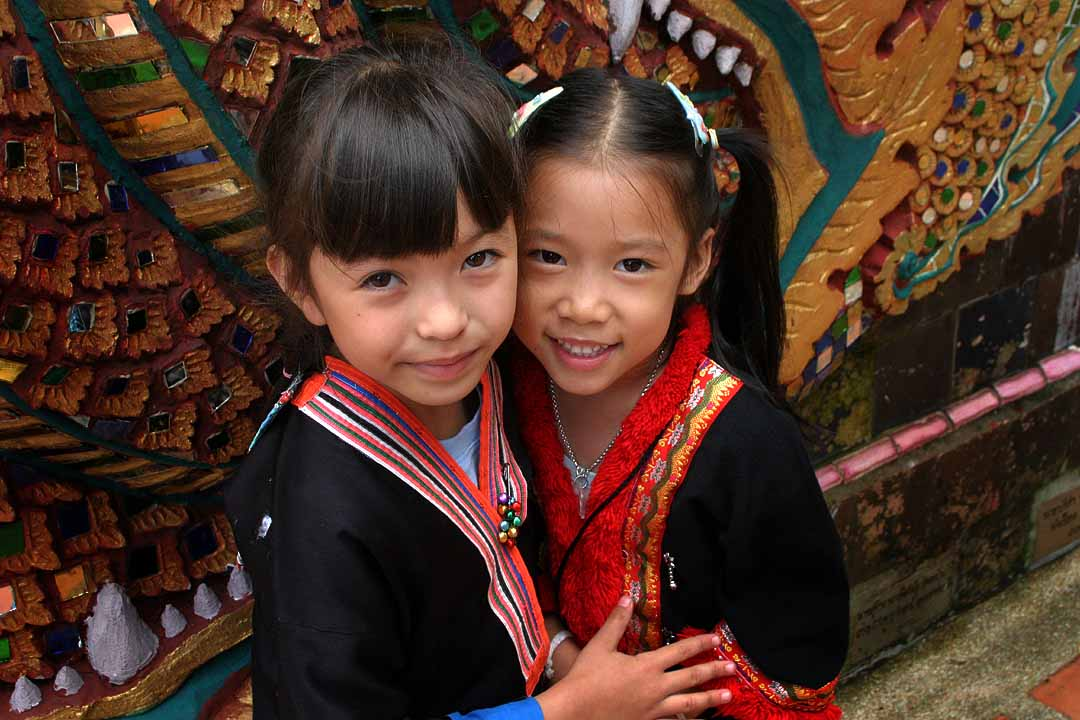 A bright future ahead... . . . [For WACC Group: Instead of choosing images of women "communicating", i decided to choose images that communicate women.]